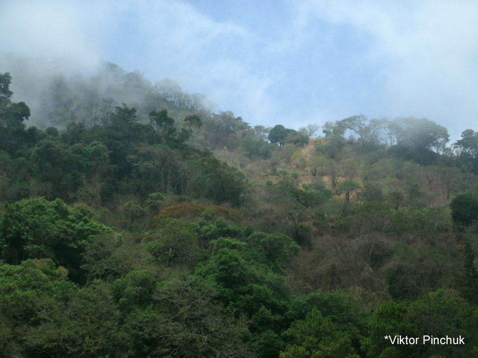 Forest near Laguna de Alegría, El Salvador